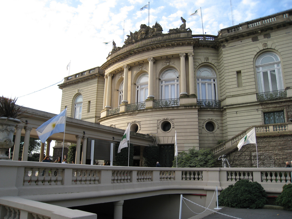 Main building, Argentine Racecourse, Buenos Aires. Foto: Matthew Armstrong